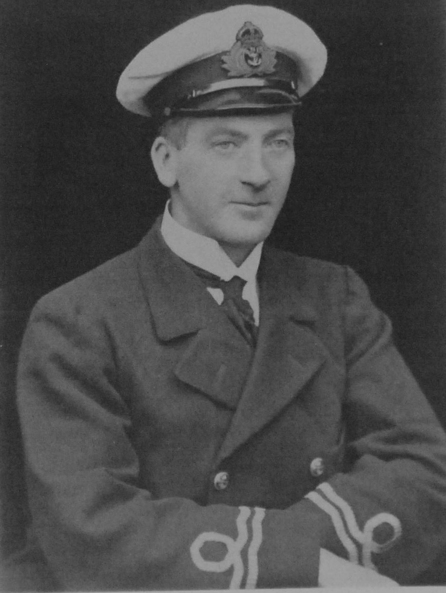 Photograph of a portrait of Victor Hodgson, founder of the West Highland Museum, taken in 1917